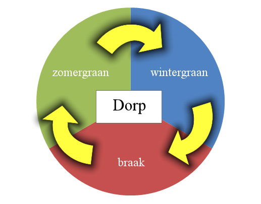 Illustration of the Three-field crop rotation. Created with ms excel and corel paint shop pro